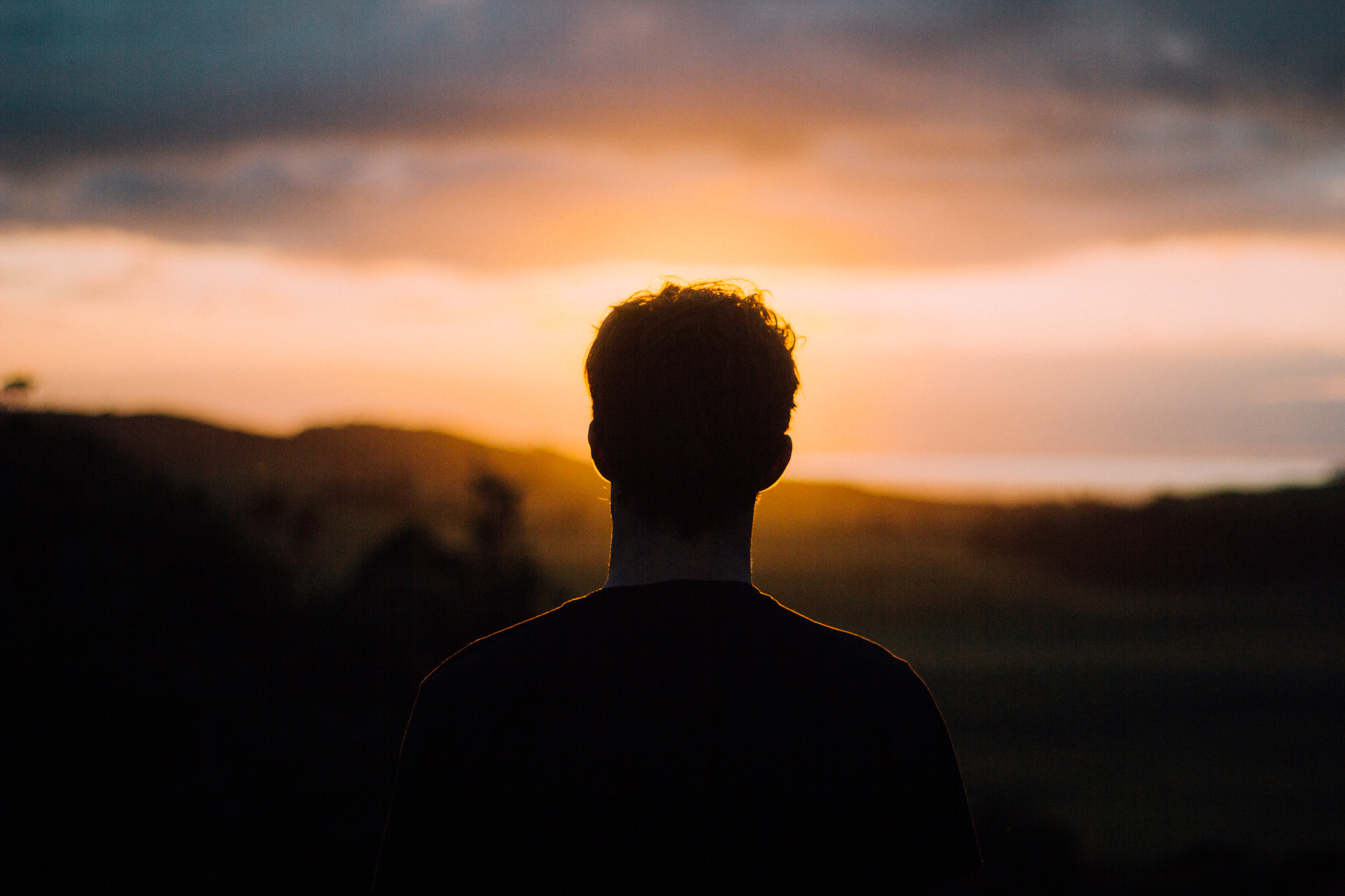 Muriwai, New Zealand